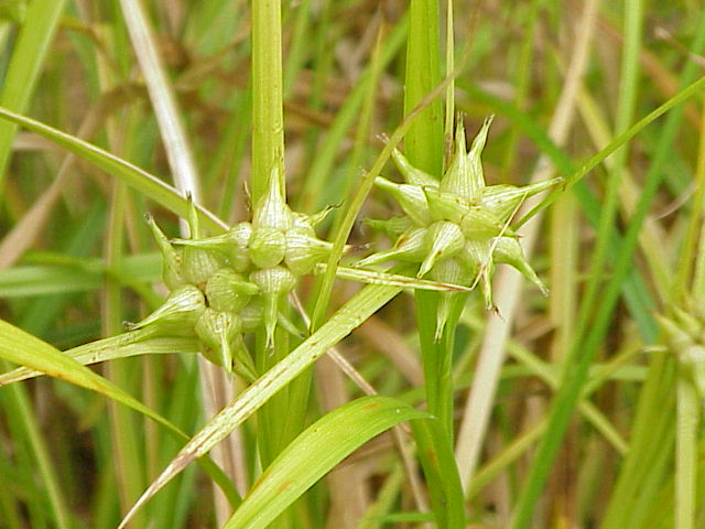 Species: Carex grayi Family: Cyperaceae Image No. 2